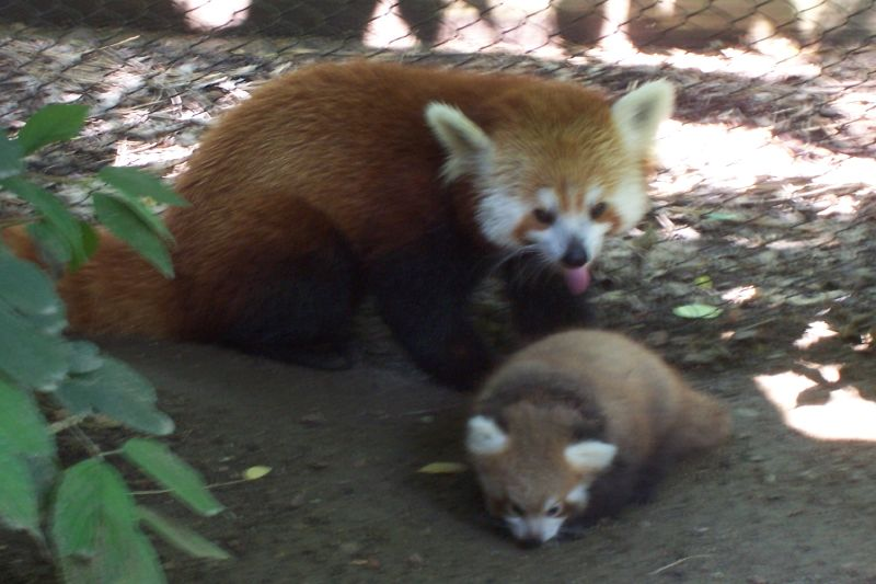 6 week old baby w. mom @ the Erie Zoo 7/29/06